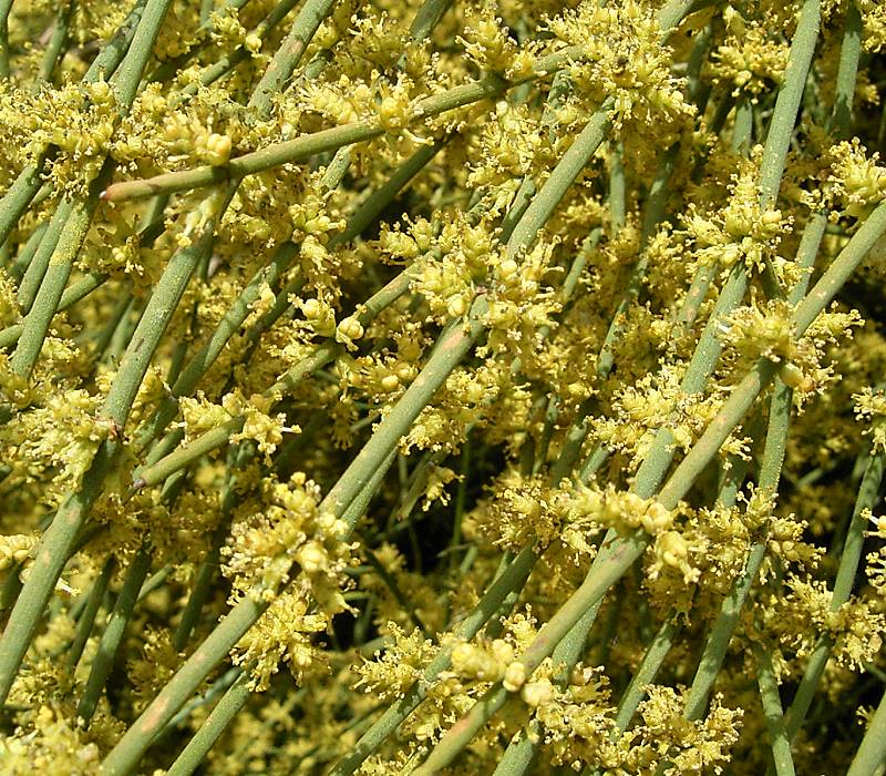 Ephedra fragilis, flowers of a male plant: BG BotaniCactus, Ses Salines, Mallorca, Spain